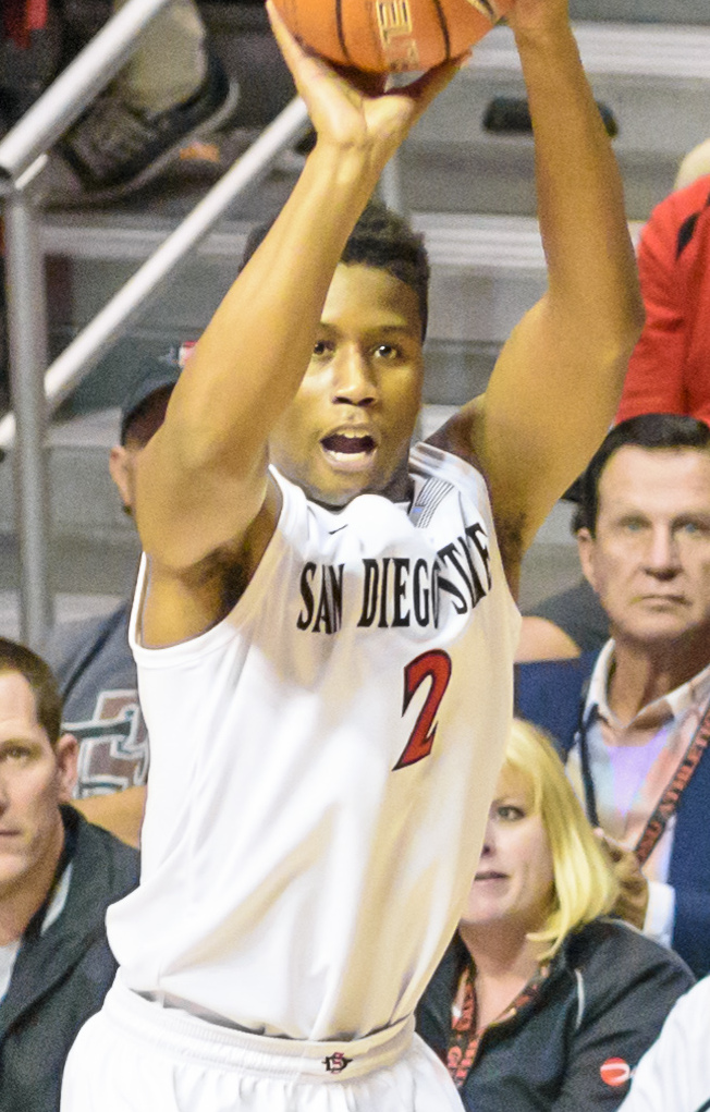 Aztecs won 60-59 on Dec 10, 2014